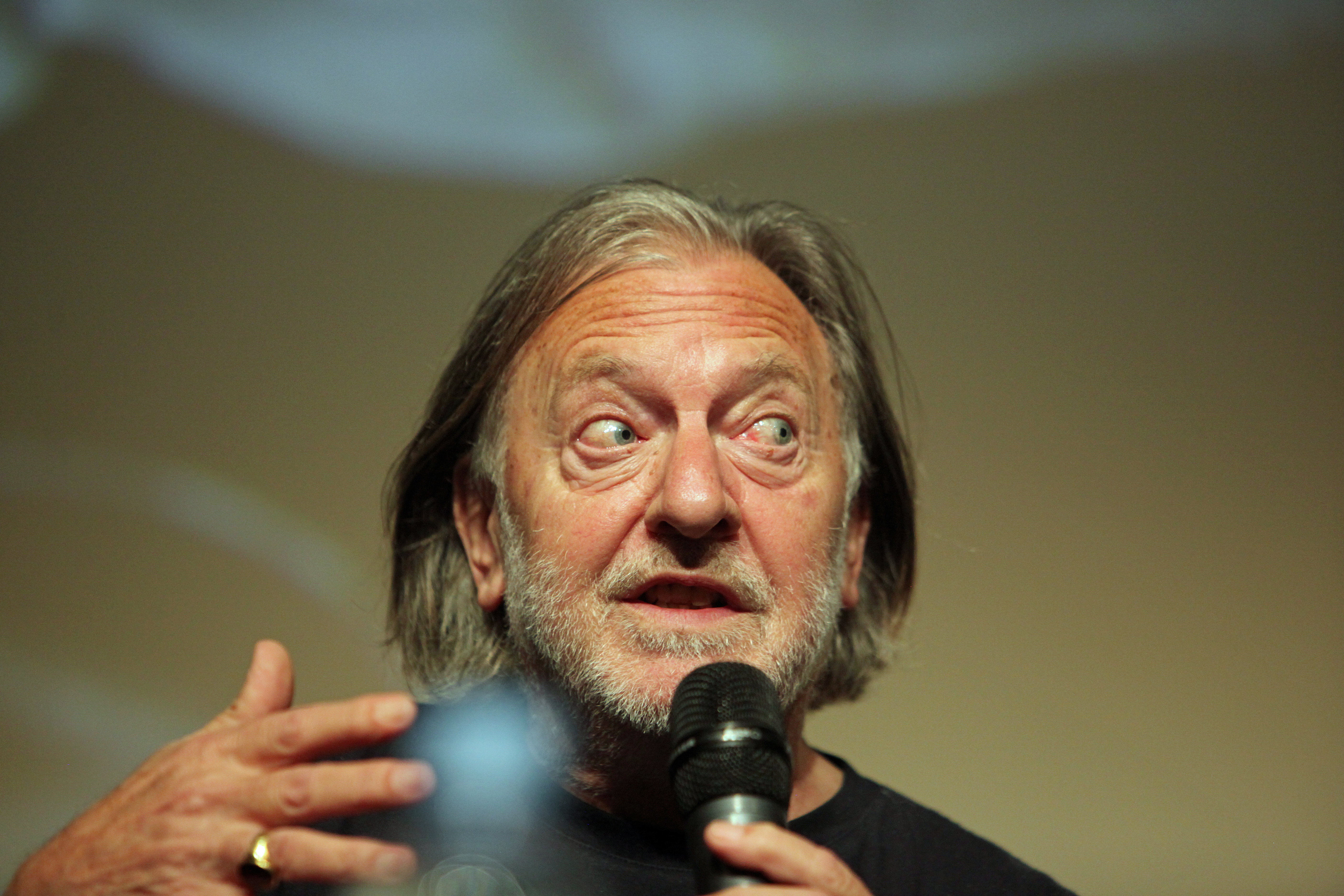 Swiss cinematographer Rainer Klausmann at the Manaki Brothers Festival in Bitola, North Macedonia, on 17 September 2019.